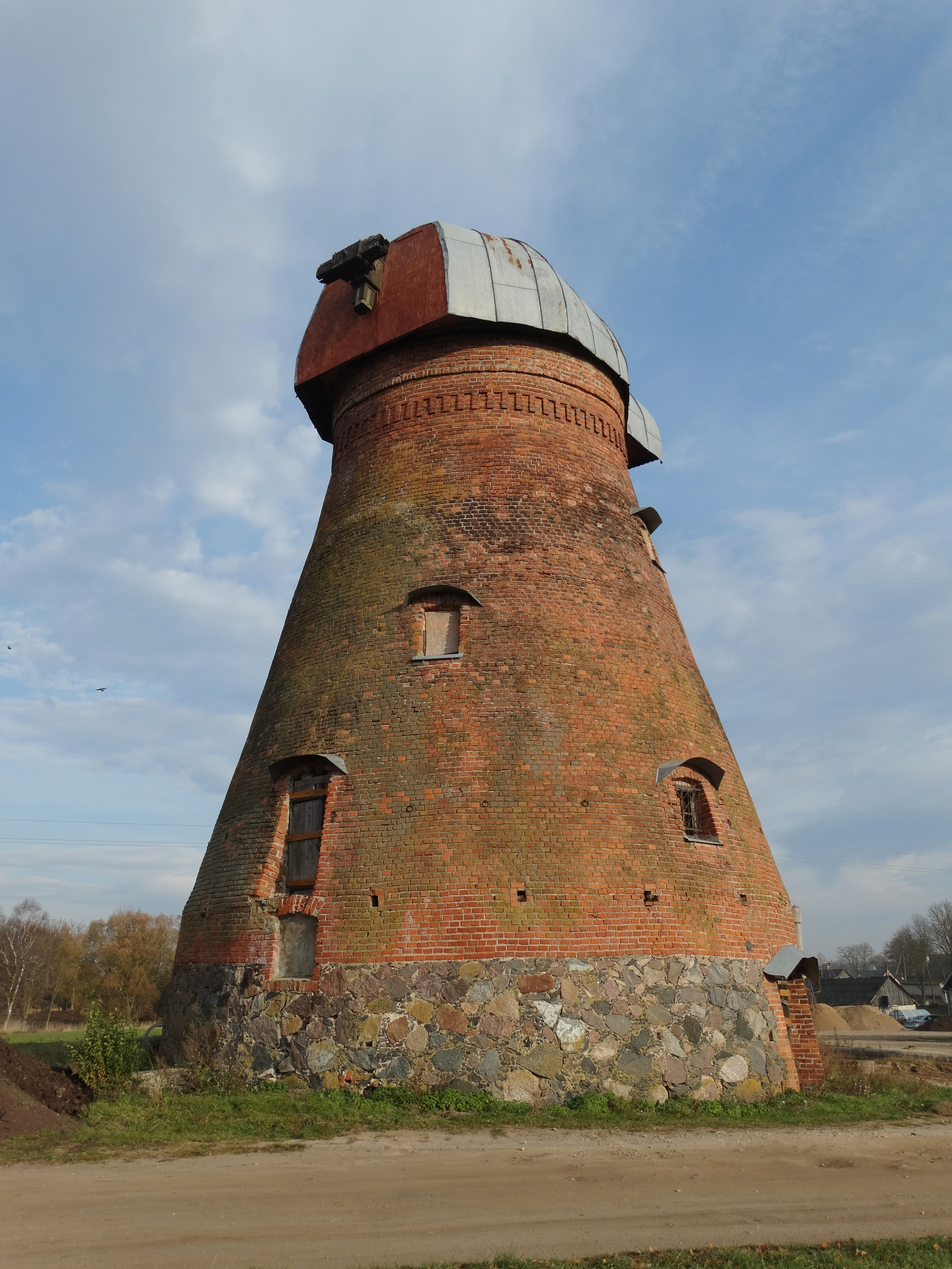 Windmill, Pumpėnai, Pasvalys district, Lithuania